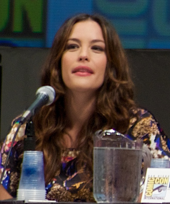 Liv Tyler at the "Super" panel